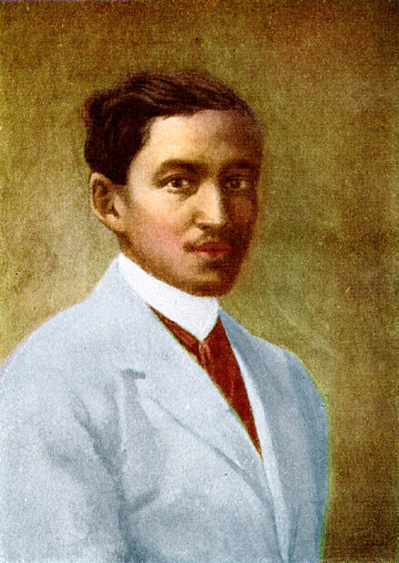 Portrait of José Rizal. The Portrait of Rizal, painted in oil by Juan Luna.